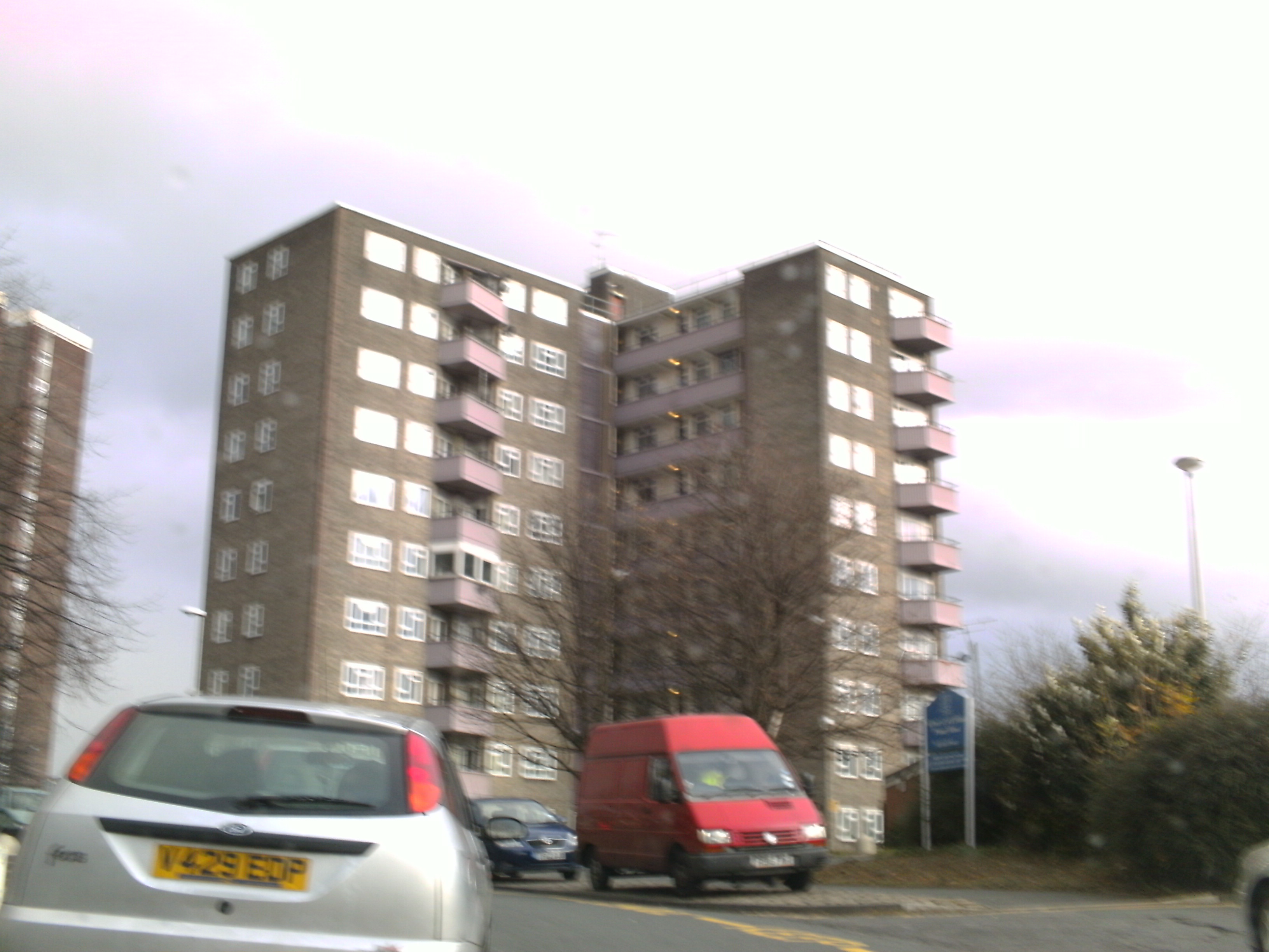 Flats in Lincoln Green, Leeds, UK